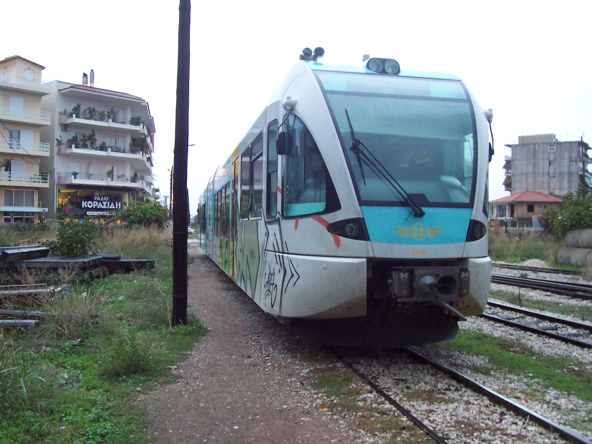 GTW2/6 DMU unit (1000mm narrow gauge), in Pyrgos, Greece